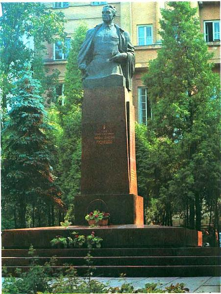 Nikolai Ivanovich Kuznetsov monument